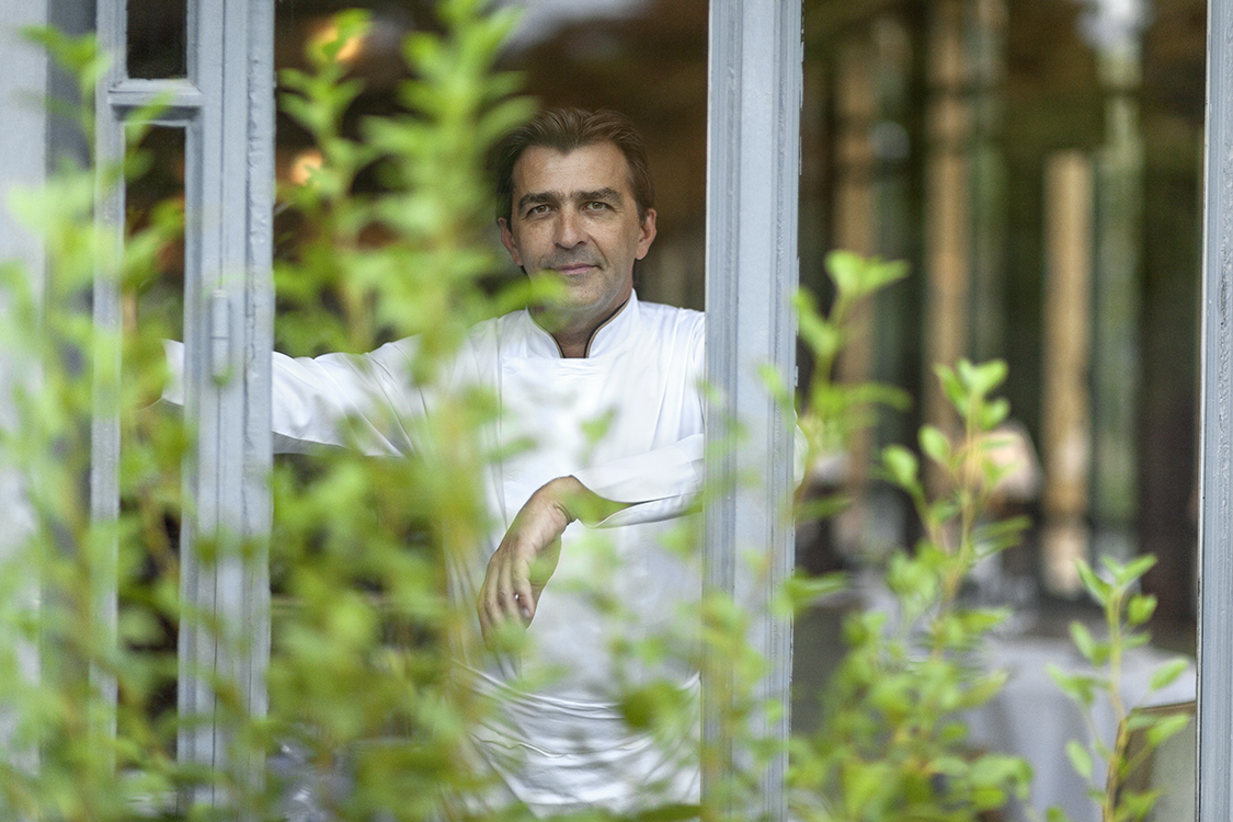 Yannick Alléno at Alléno Paris.